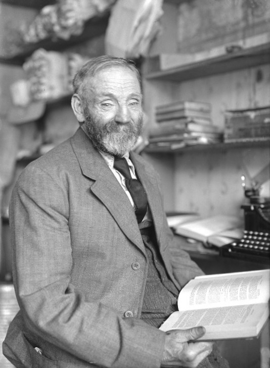 Thomas J. Howell, Botanist of the Pacific Northwest, holding an open book. Typewriter and books in background office area. 1910. Name of Expedition: Huron H. Smith Expedition to Oregon Participants: Huron H. Smith Expedition Start Date: 1910 Expedition End Date: 1911 Purpose or Aims: Collecting Botany specimens, taking portraits of trees Location: Portland, Oregon, U.S.A., North America Original material: 5x7 glass negative Digital Identifier: CSB33054 Learn more about The Field Museum's Library Photo Archives.